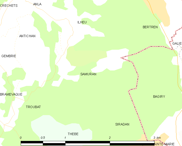 Map of French municipality